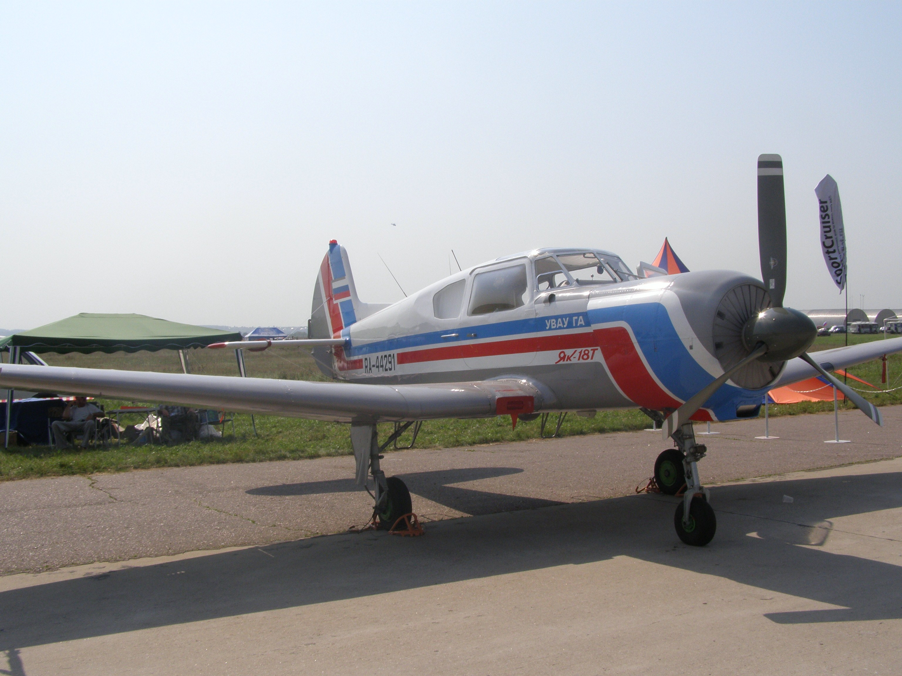 New variant of the russian trainer plane Yak-18T on MAKS-2007.